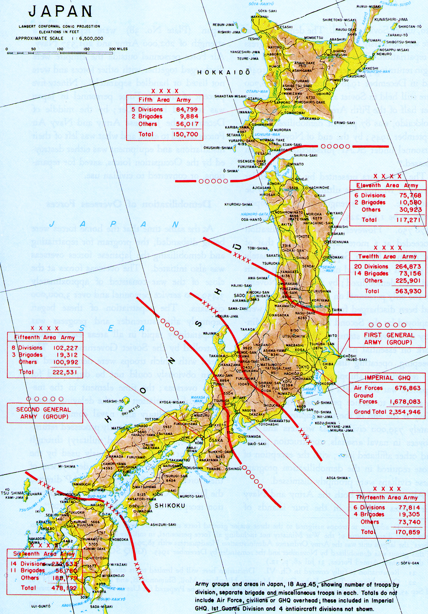 Disposition of Japanese Army Ground Forces in the home islands at the time of capitulation, August 18 1945